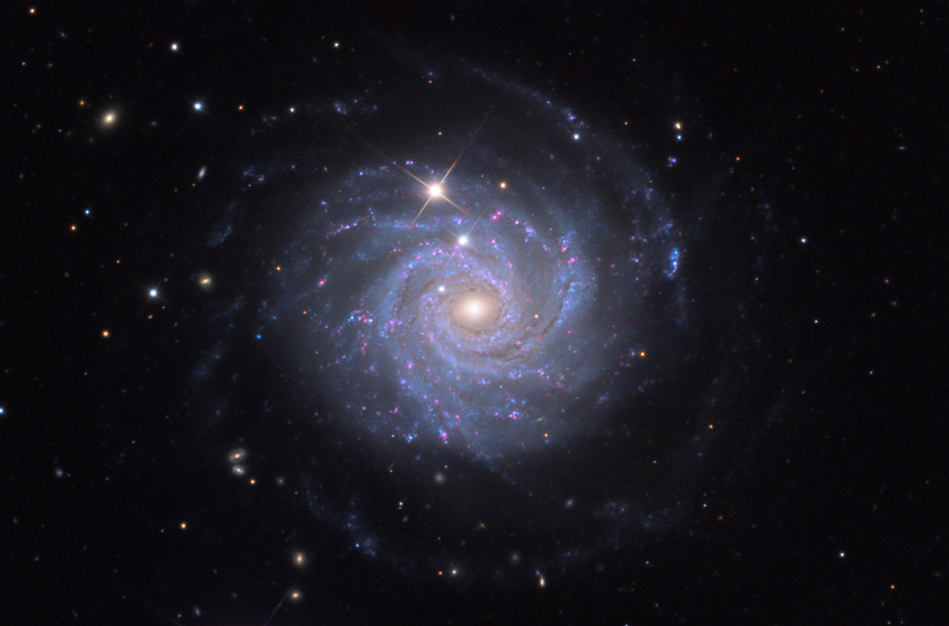 Deep exposures of Galaxies using the 0.8m Schulman Telescope at the Mount Lemmon SkyCenter Credit Line & Copyright Adam Block/Mount Lemmon SkyCenter/University of Arizona